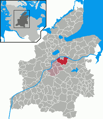 Locator maps of municipalities in Schleswig-Holstein - District Rendsburg-Eckernförde